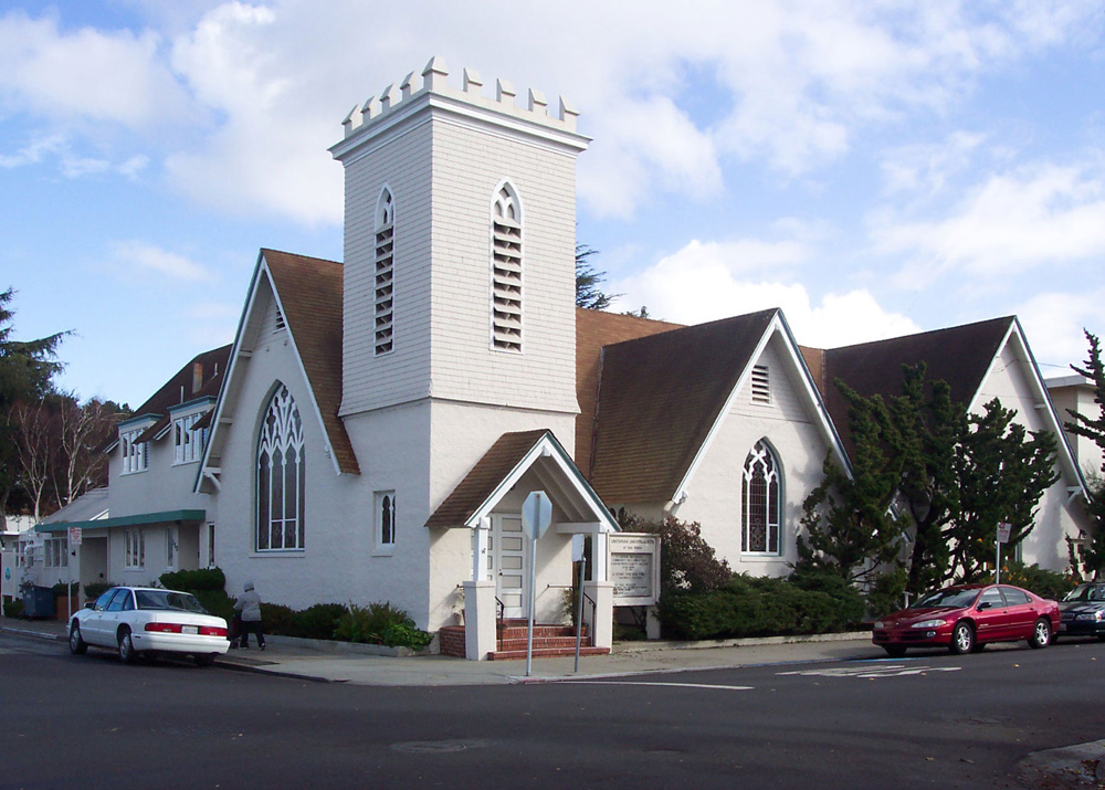 Unitarian Universalists of San Mateo, California building exterior. The building is a former Methodist church which was moved onto the present site in the 1960s.